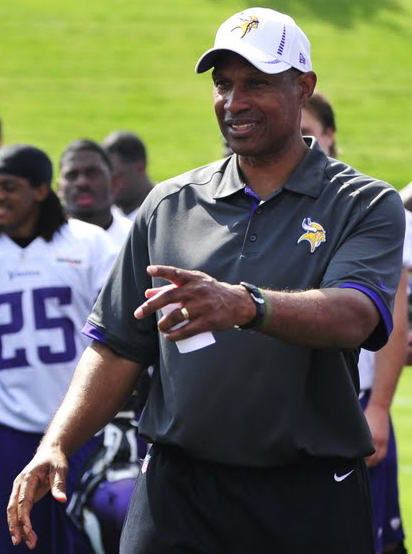 American football coach Leslie Frazier